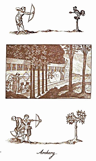 Three panels depicting archery in England from various time periods.